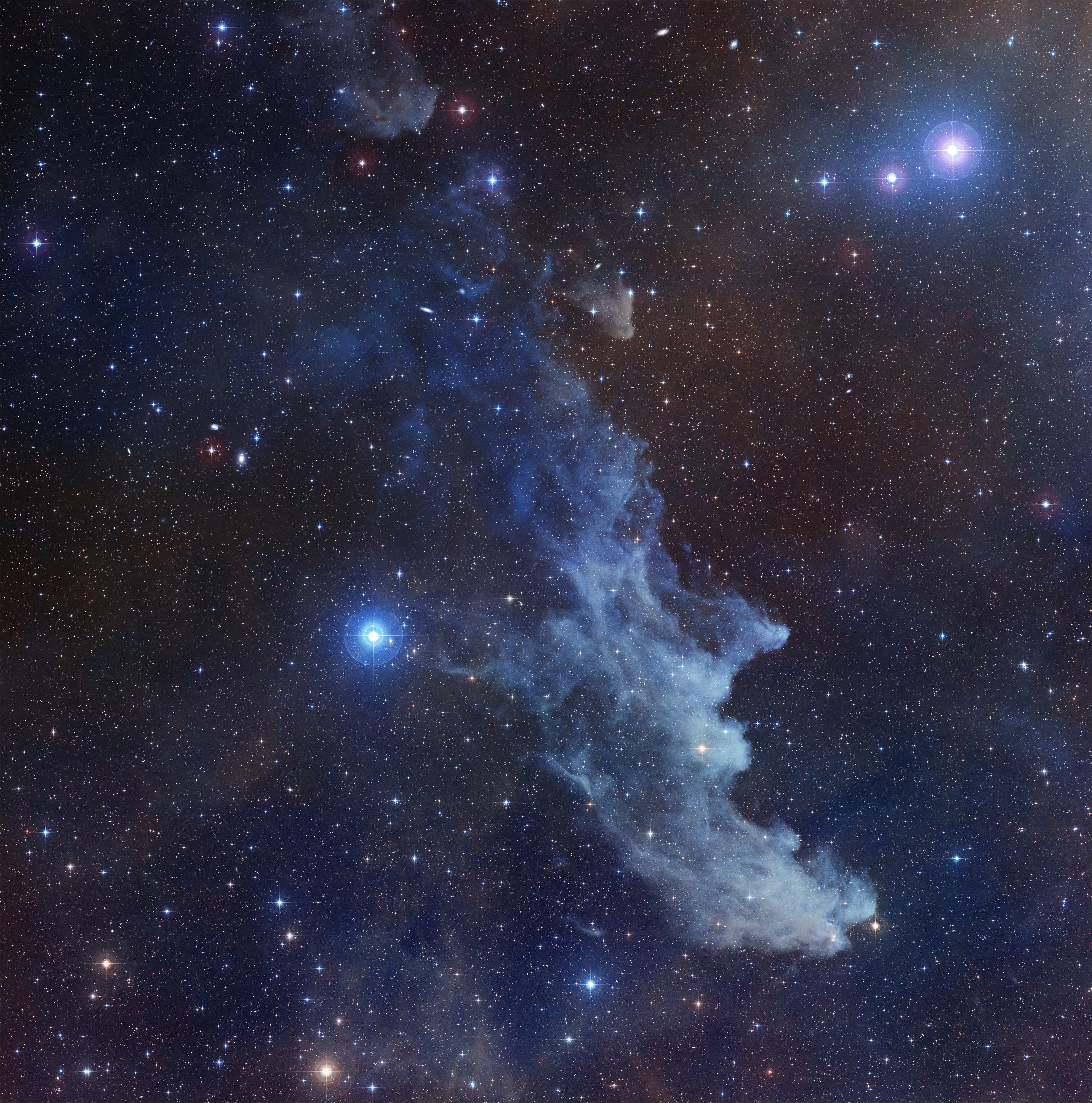 As the name implies, this reflection nebula associated with the star Rigel looks suspiciously like a fairytale crone. Formally known as IC 2118 in the constellation Orion, the Witch Head Nebula glows primarily by light reflected from the star. The color of this very blue nebula is caused not only by blue color of its star, but also because the dust grains reflect blue light more efficiently than red. A similar physical process causes Earth's daytime sky to appear blue.